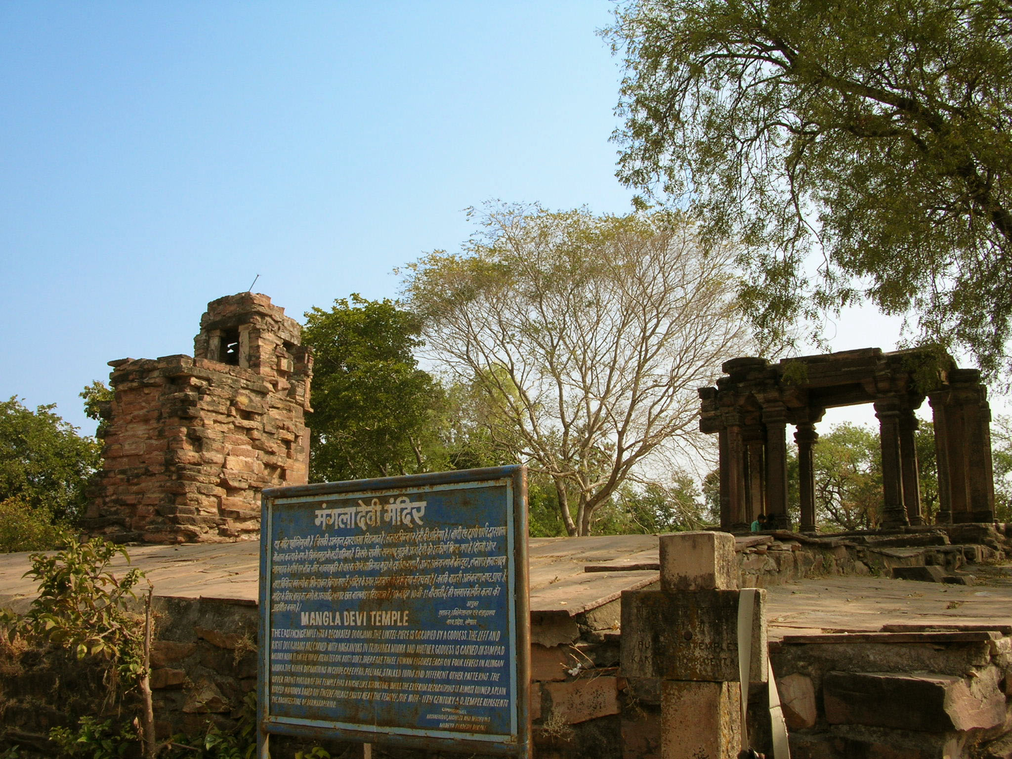 Mangla Devi Temple Vidisha Distt